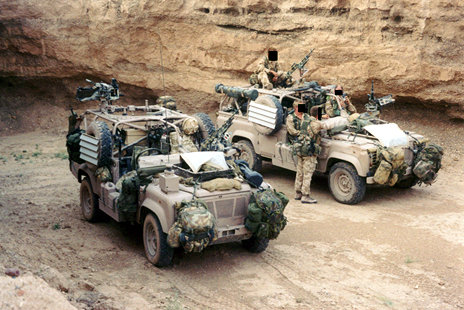 A Pathfinder Platoon patrol harboured up within an Iraqi Wadi prior to conducting offensive action tasks on the Iraq/Iran border during the Second Gulf War.